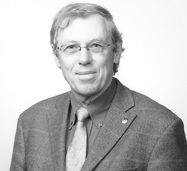 Photograph of pharmacologist Franz Hofmann